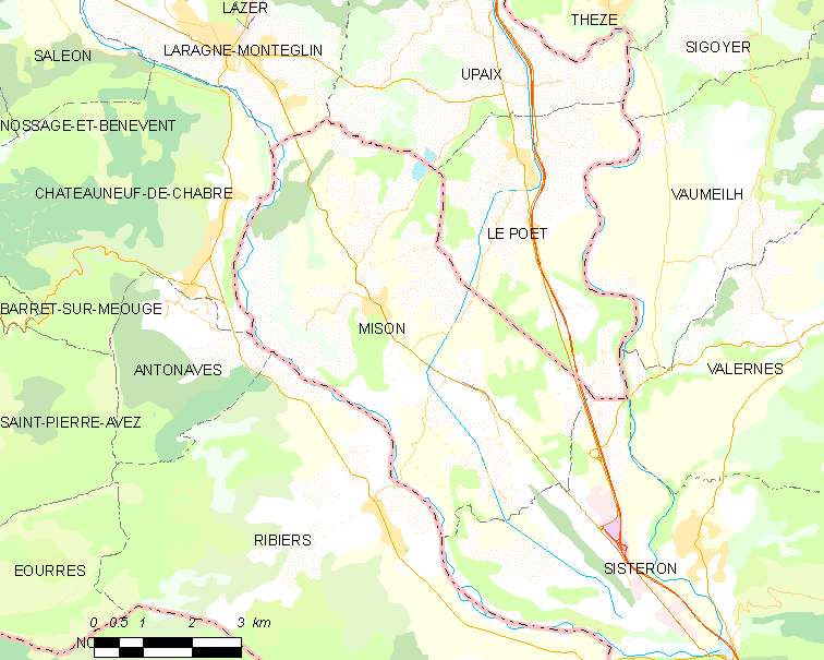 Map commune FR insee code 04123.png Légende